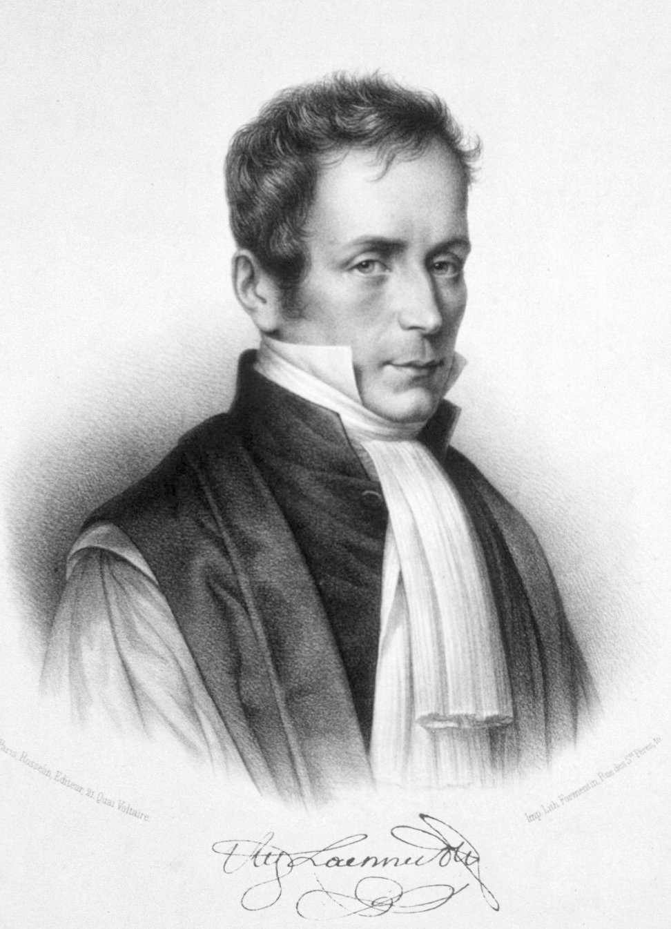 René-Théophile-Hyacinthe Laennec (1781 – 1826) French physician and inventor of the stethoscope.